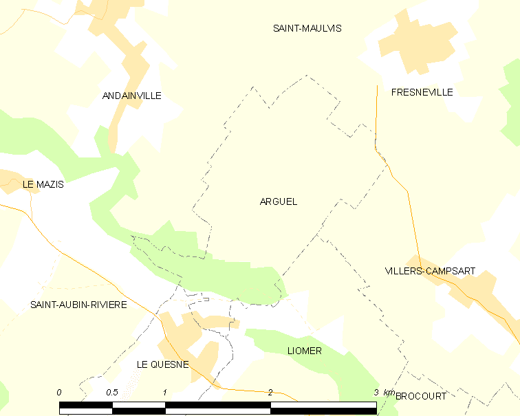 Map of French municipality Arguel